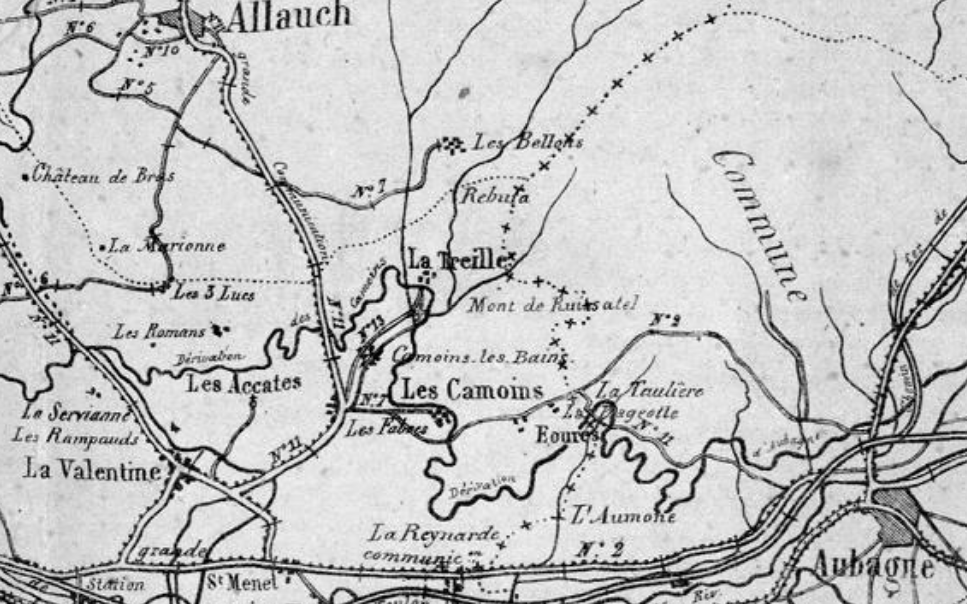 Detail from the map of Marseille and environs showing La Treille, Allauch and Aubagne from Dictionnaire des villes, villages et hameaux du département des Bouches-du-Rhône orné de cartes, plans, dessins et gravures, par Alfred Saurel